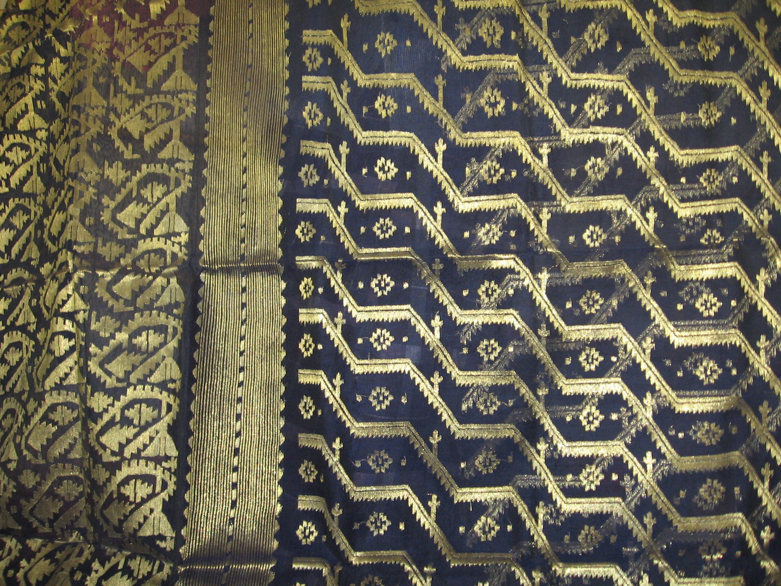 Poetion of a sari woven at Sonargaon